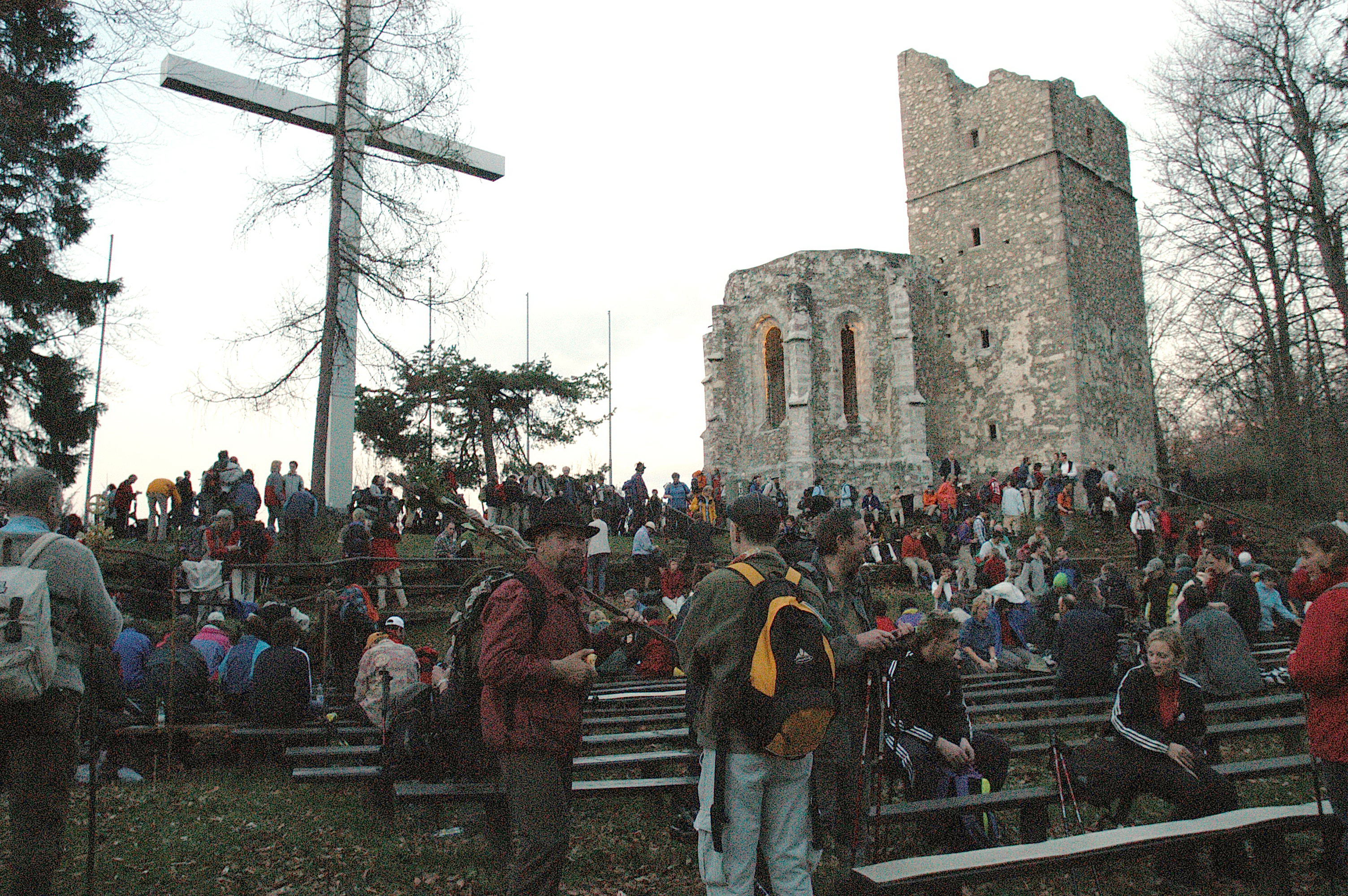 Mount Ulrich with cross and church-hulk, Carinthia, Austria